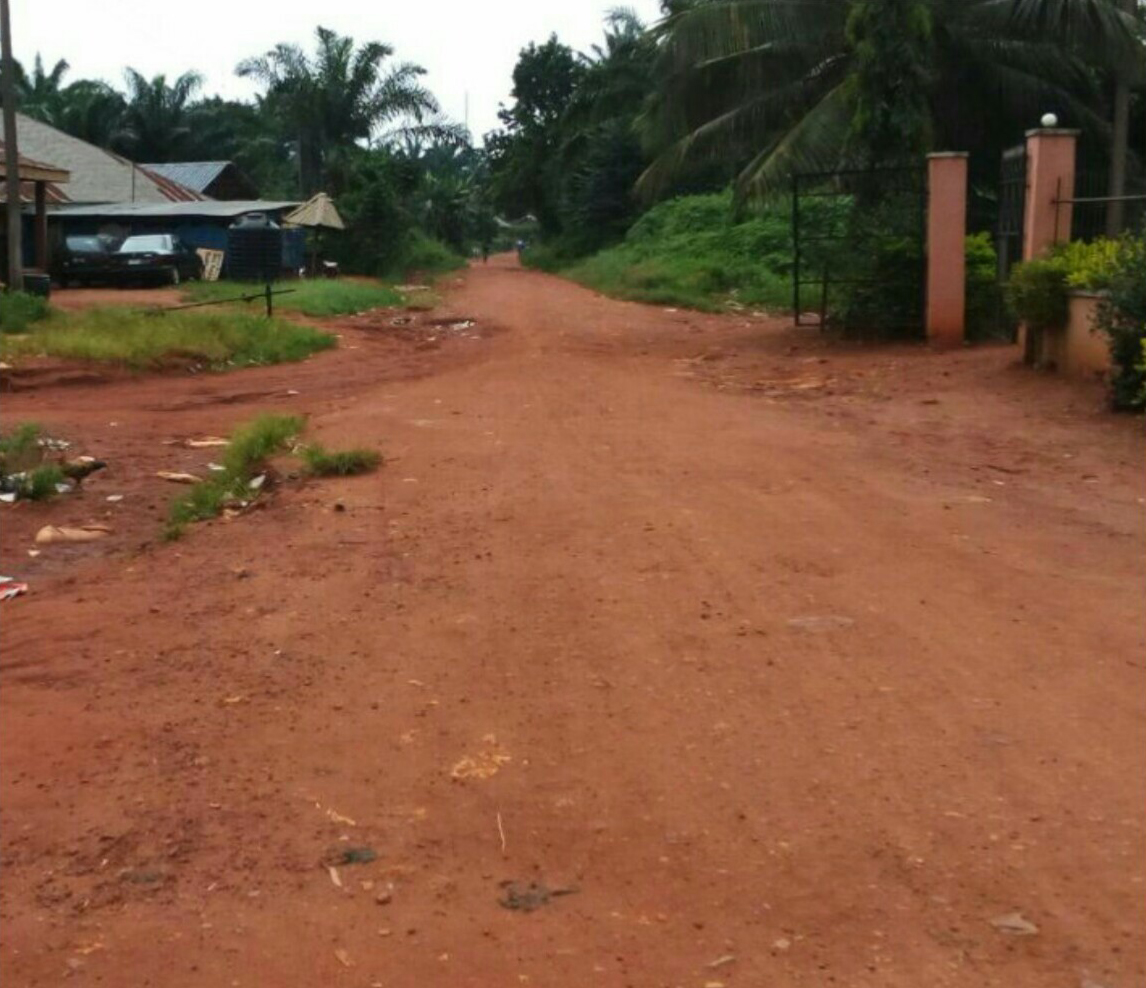 Going to Ezema from Fen park hotels